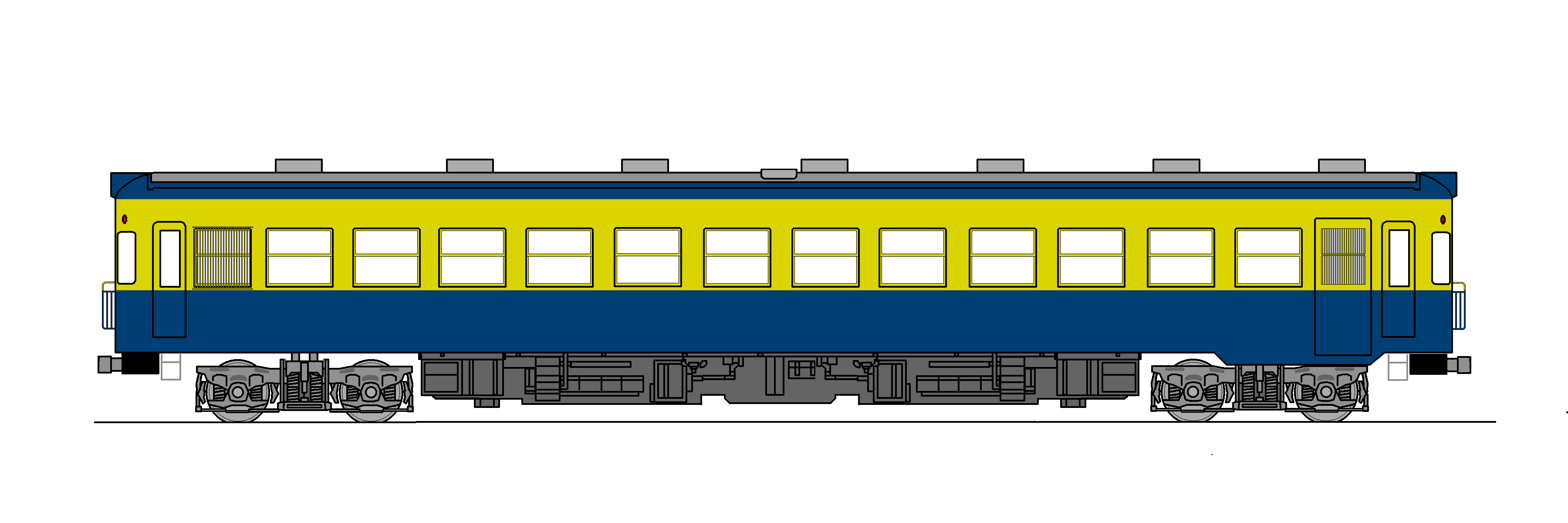 Side view of the Odakyu Electric Railway KiHa 5000 series DMU car, in its original livery